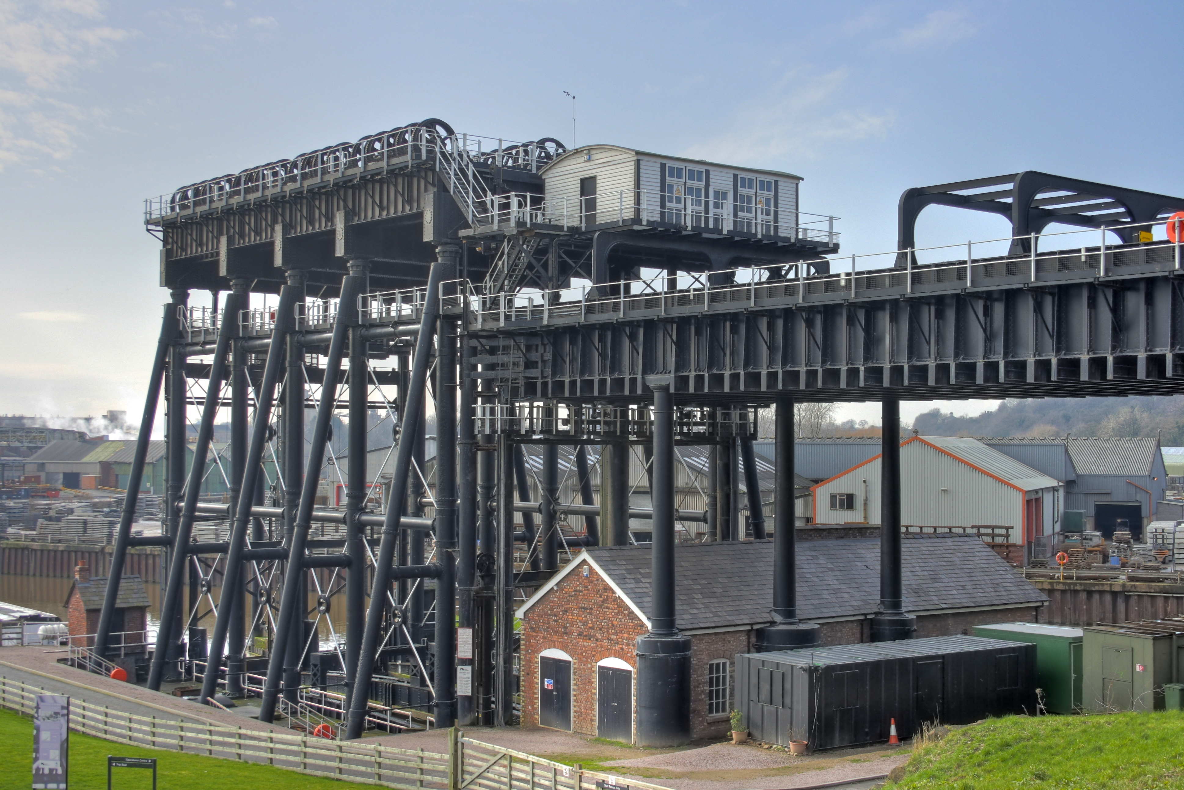 Anderton Boat Lift, England